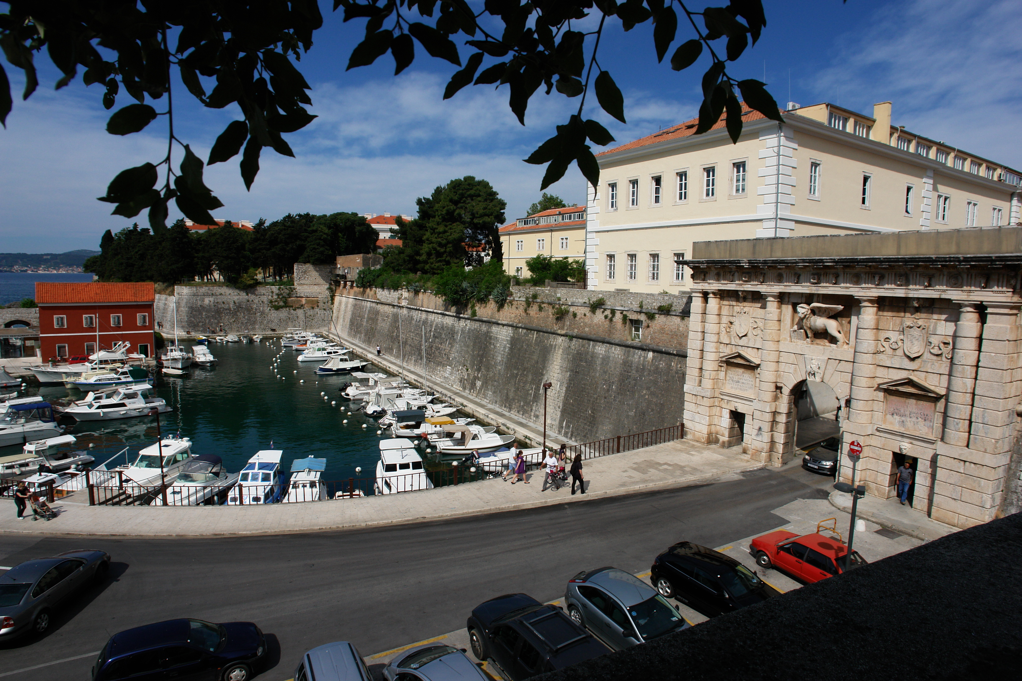 The "Kopnena vrata" (Landward Gate) with the Lion of Saint Mark, Zadar, Croatia